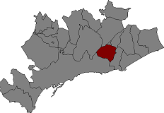 Location of la Riera de Gaià in Tarragonès